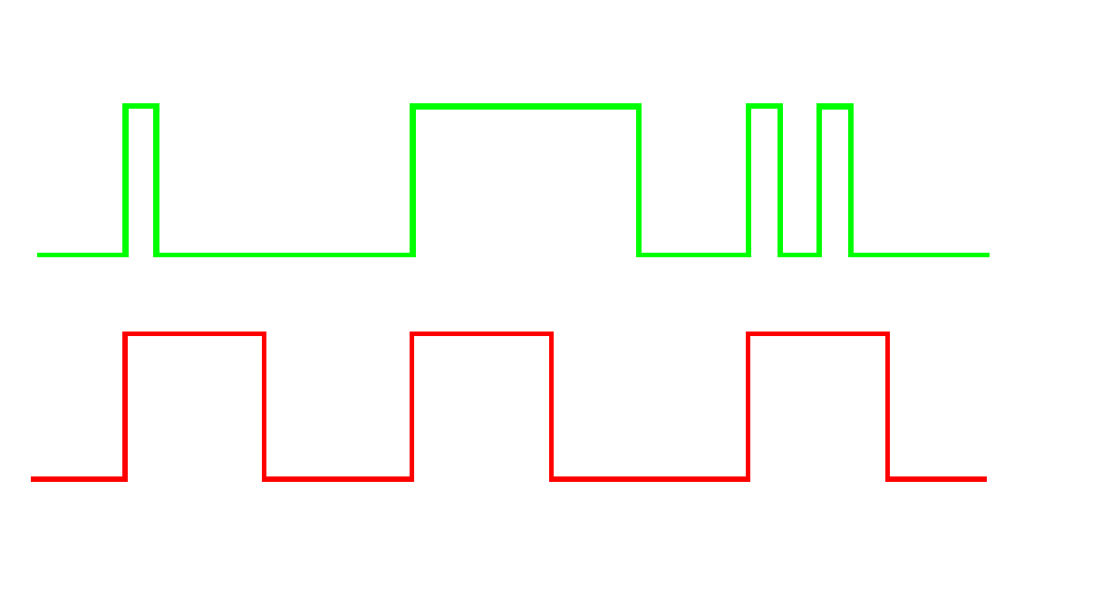 Green line shows input waveform to monostable multivibrator. Red line shows output. It can act as frequency divider.